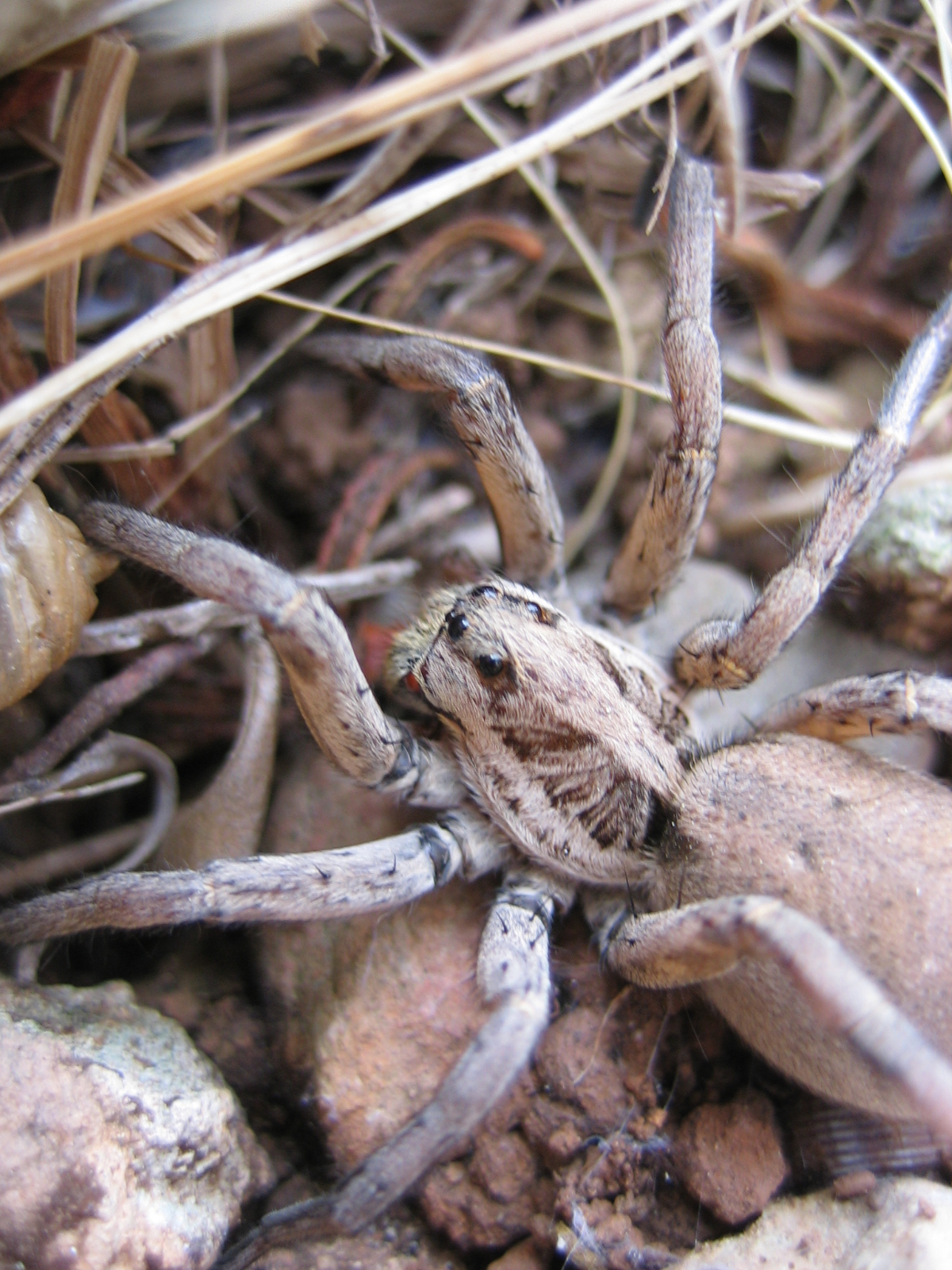 Photography of a Tarantula